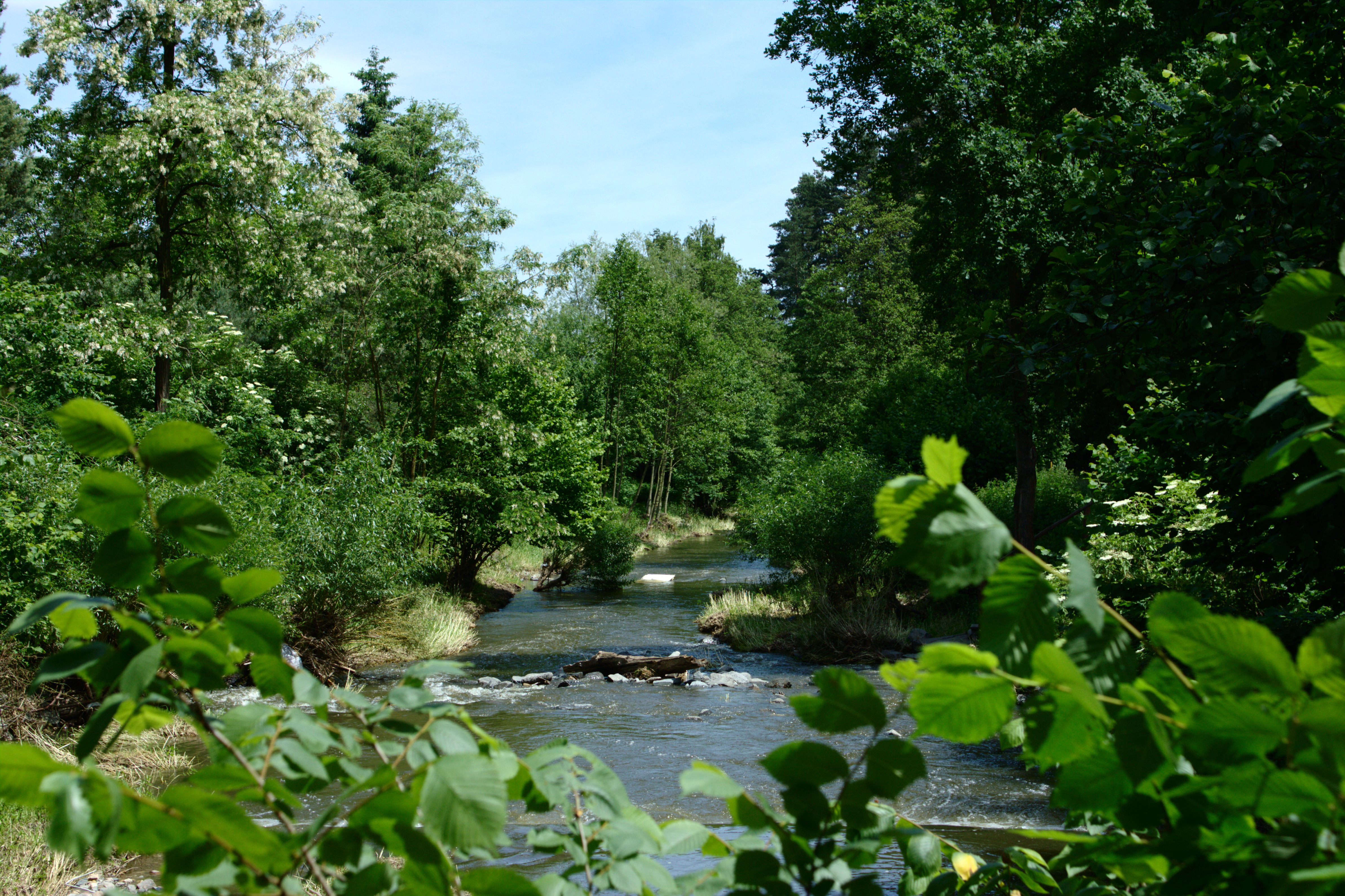 Konopišťský potok Creek near Sázava River, in Poříčí nad Sázavou, Central Bohemian Region, CZ